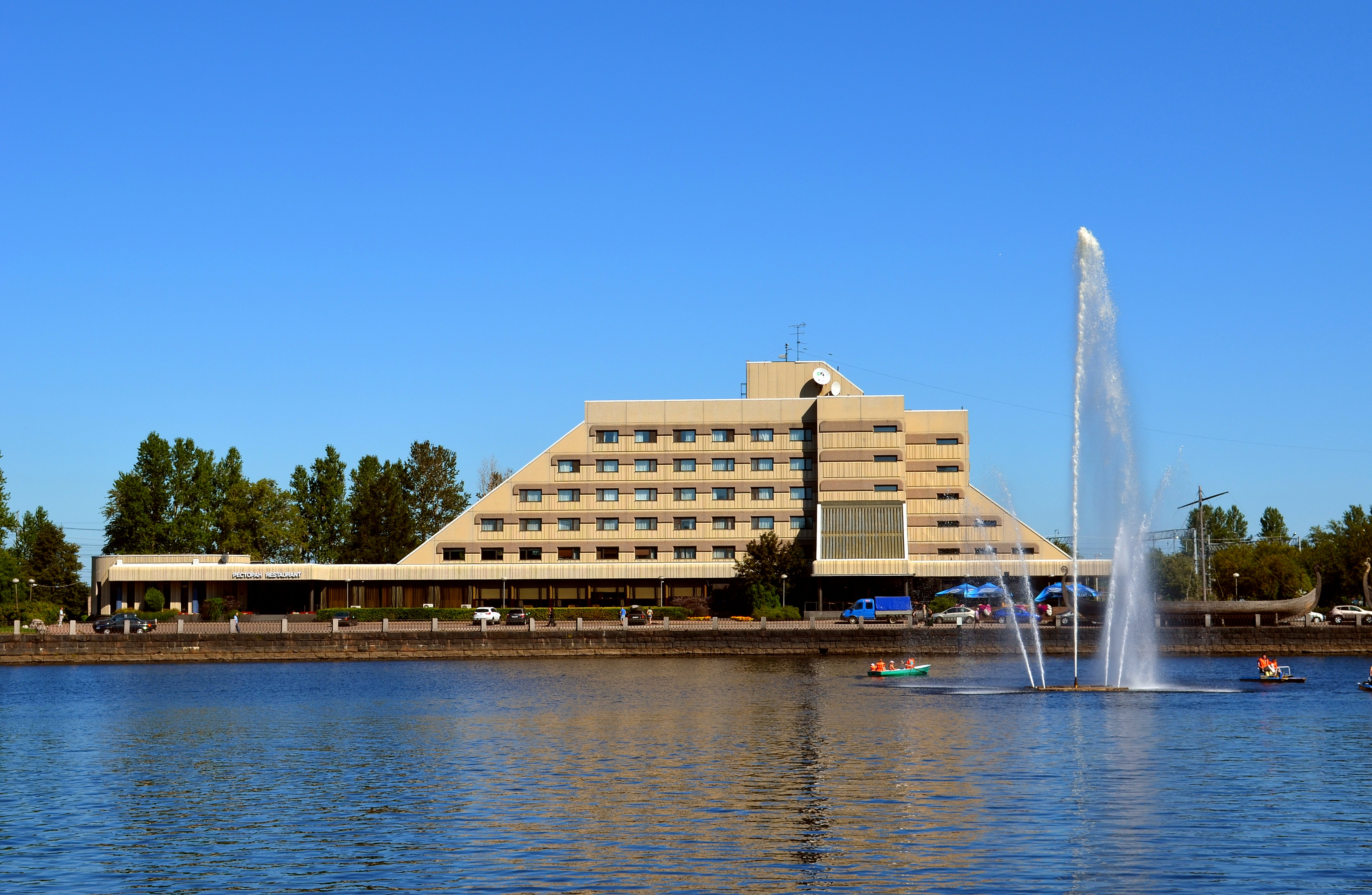 Vyborg. Druzhba Hotel